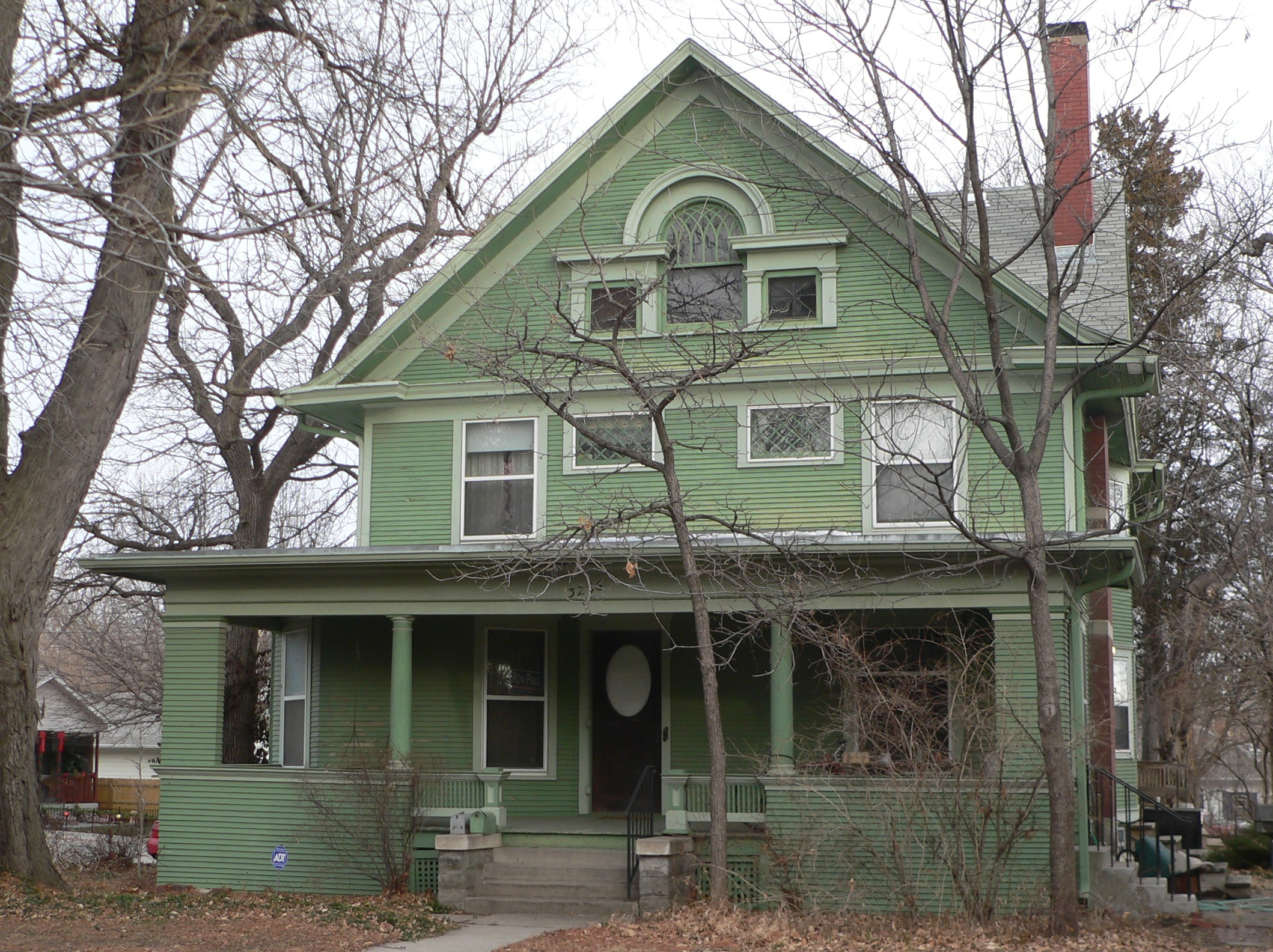 Edgar A. Burnett house, located at 3256 Holdrege Street in Lincoln, Nebraska; seen from the south.